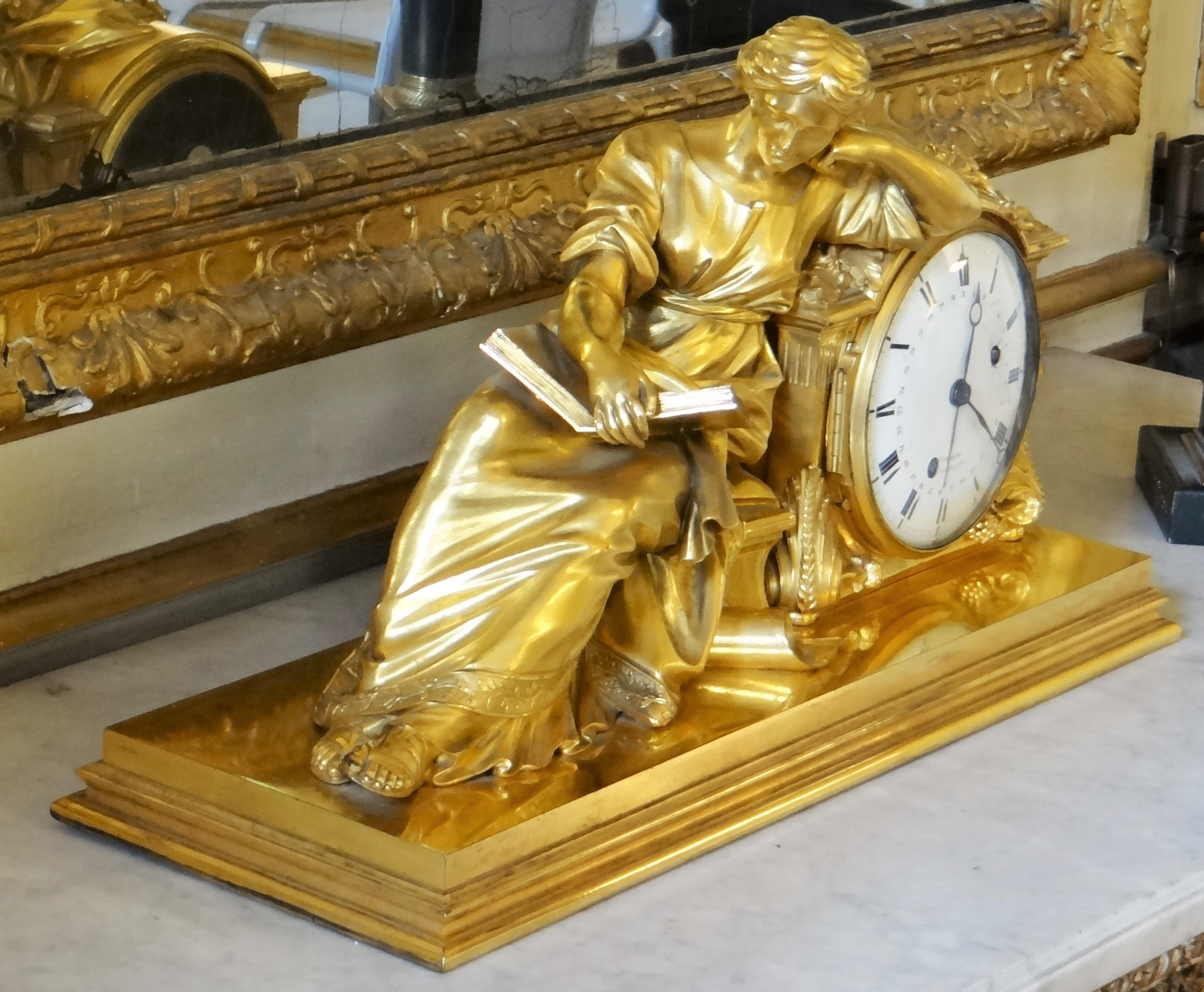 Clock in Hotel de Bourvallais, Paris, France, Ministry of Justice